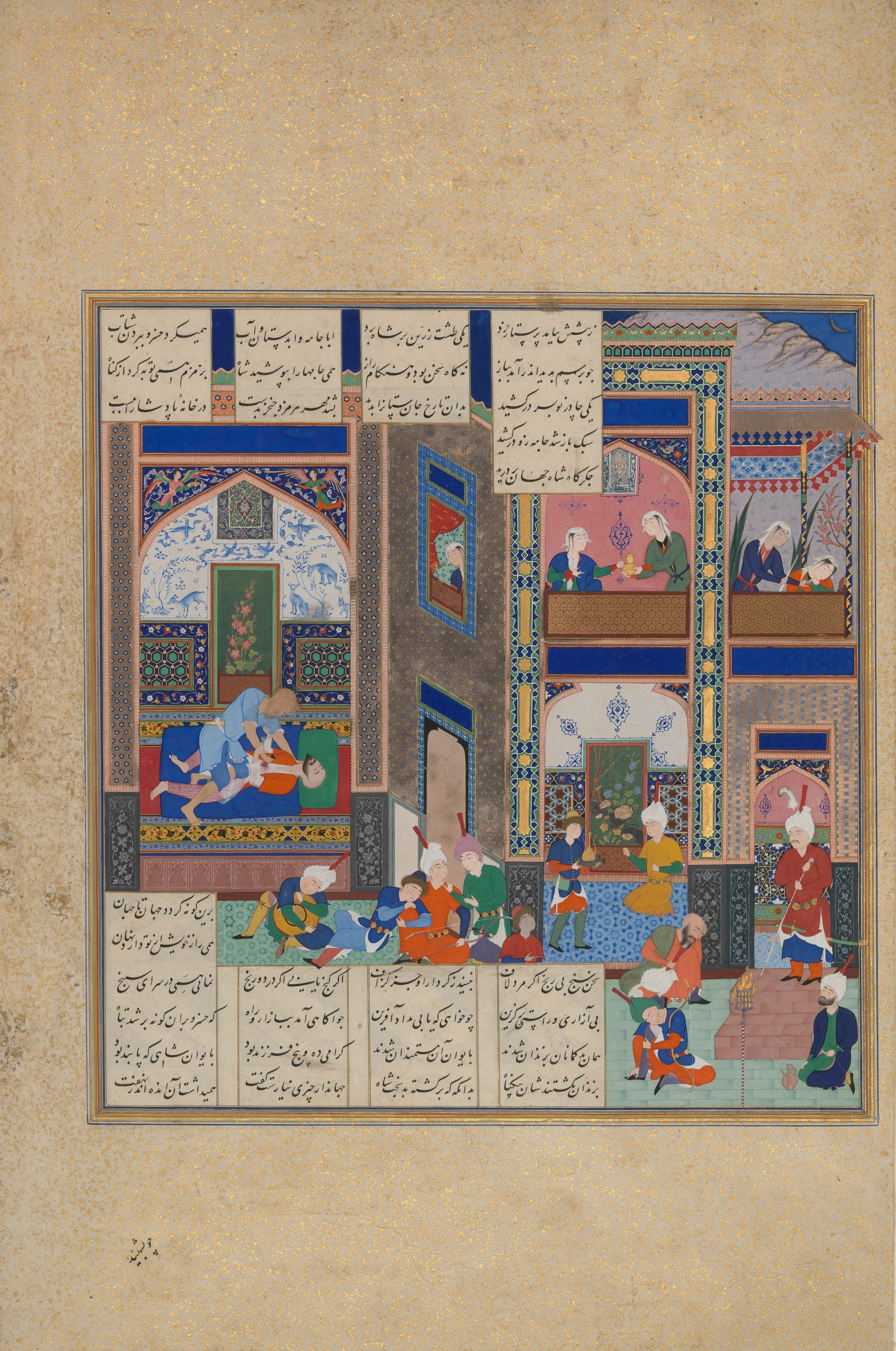 Abd al Samad. The Assassination of Khusrau Parviz, Folio from the Shahnama (Book of Kings) of Shah Tahmasp ca. 1535, Metmuseum N-Y